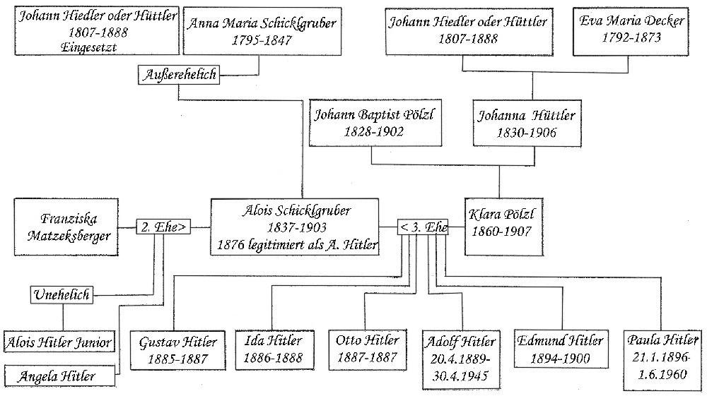 Pedigree of Hitler's family